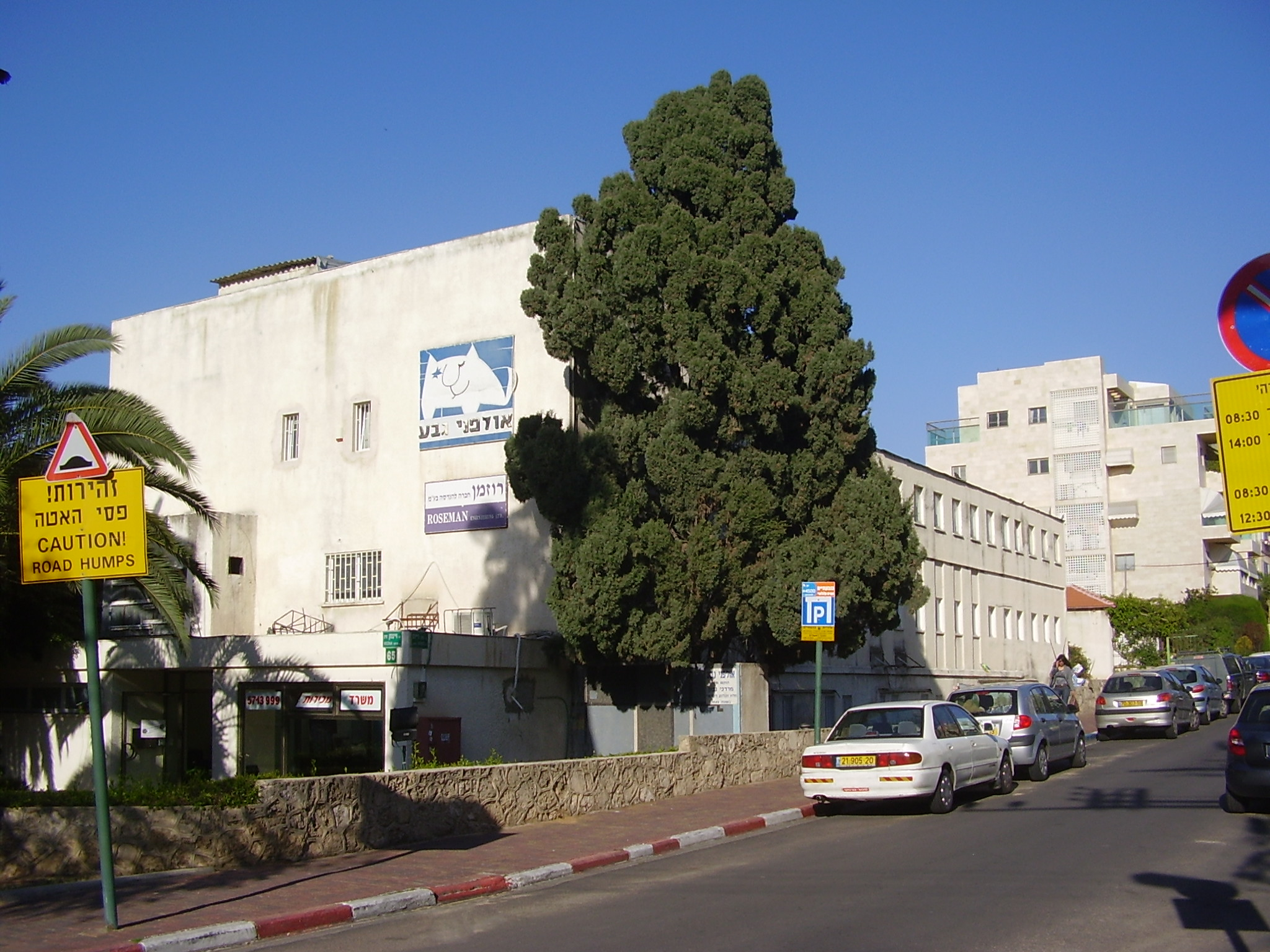 geva studius in giv\'ataym